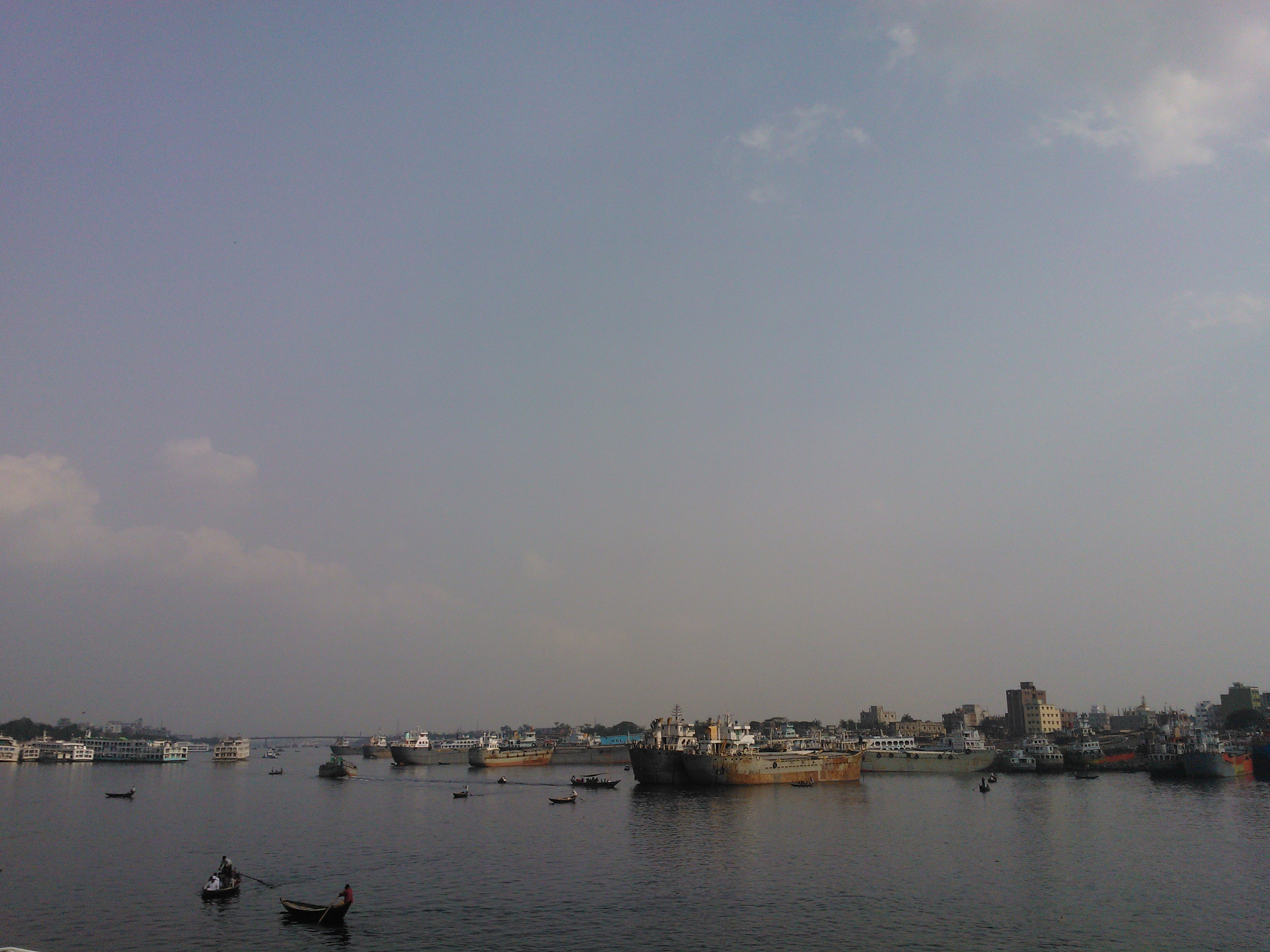 Port of Sadarghat